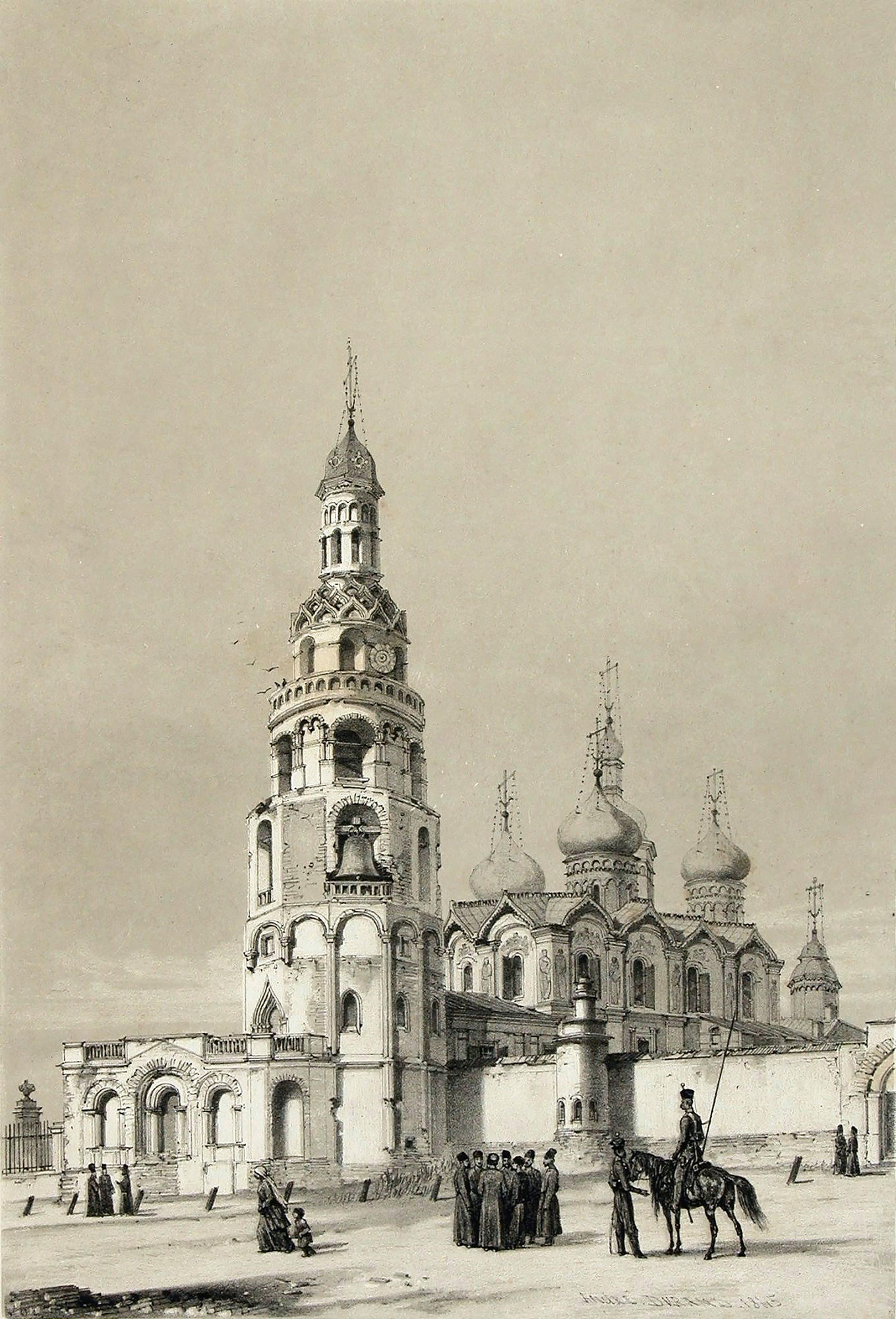 Annunciation cathedral in Kazan Kremlin, drawing by Andre Duran, 1839